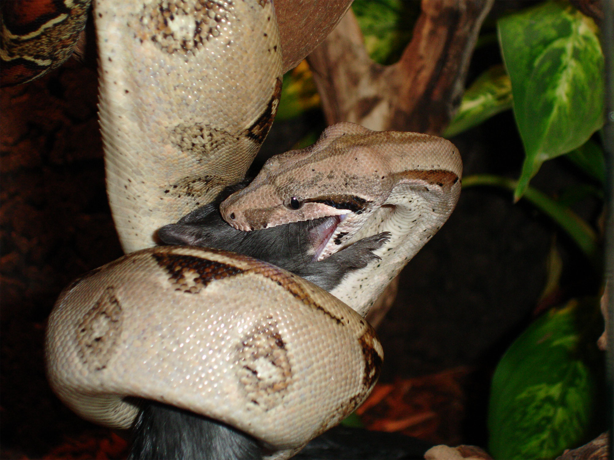 Boa constrictor imperator eating